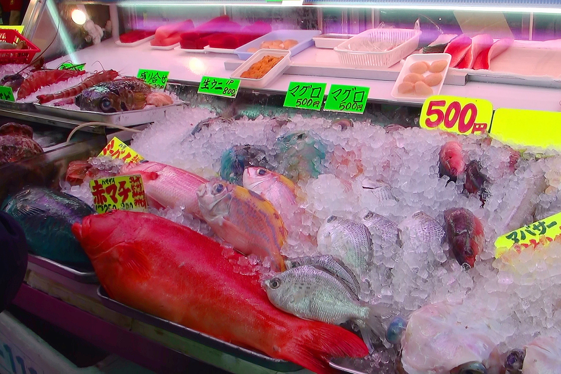 Fish of Okinawa sold in an Makishi First Public Market